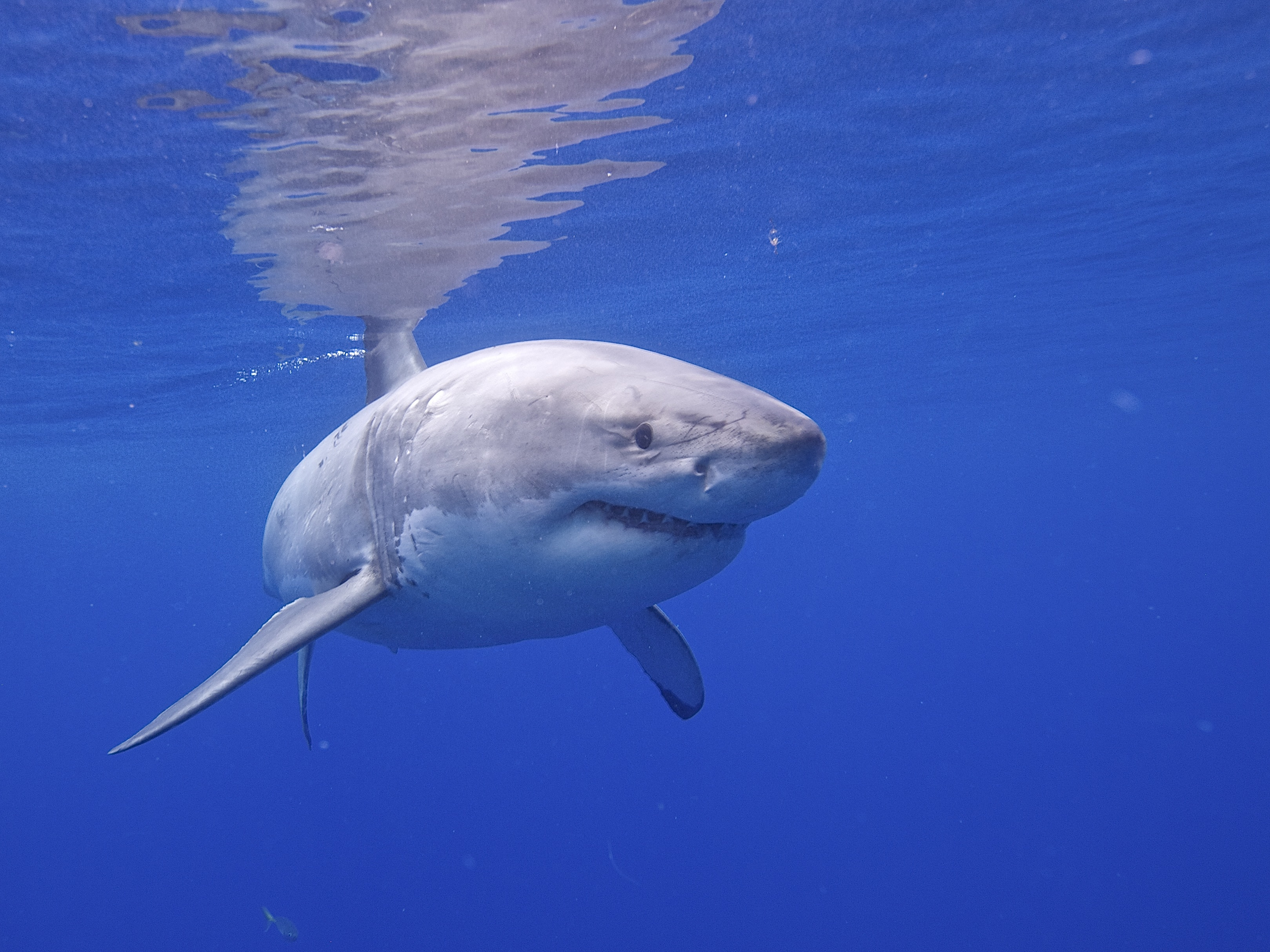 Great White Shark